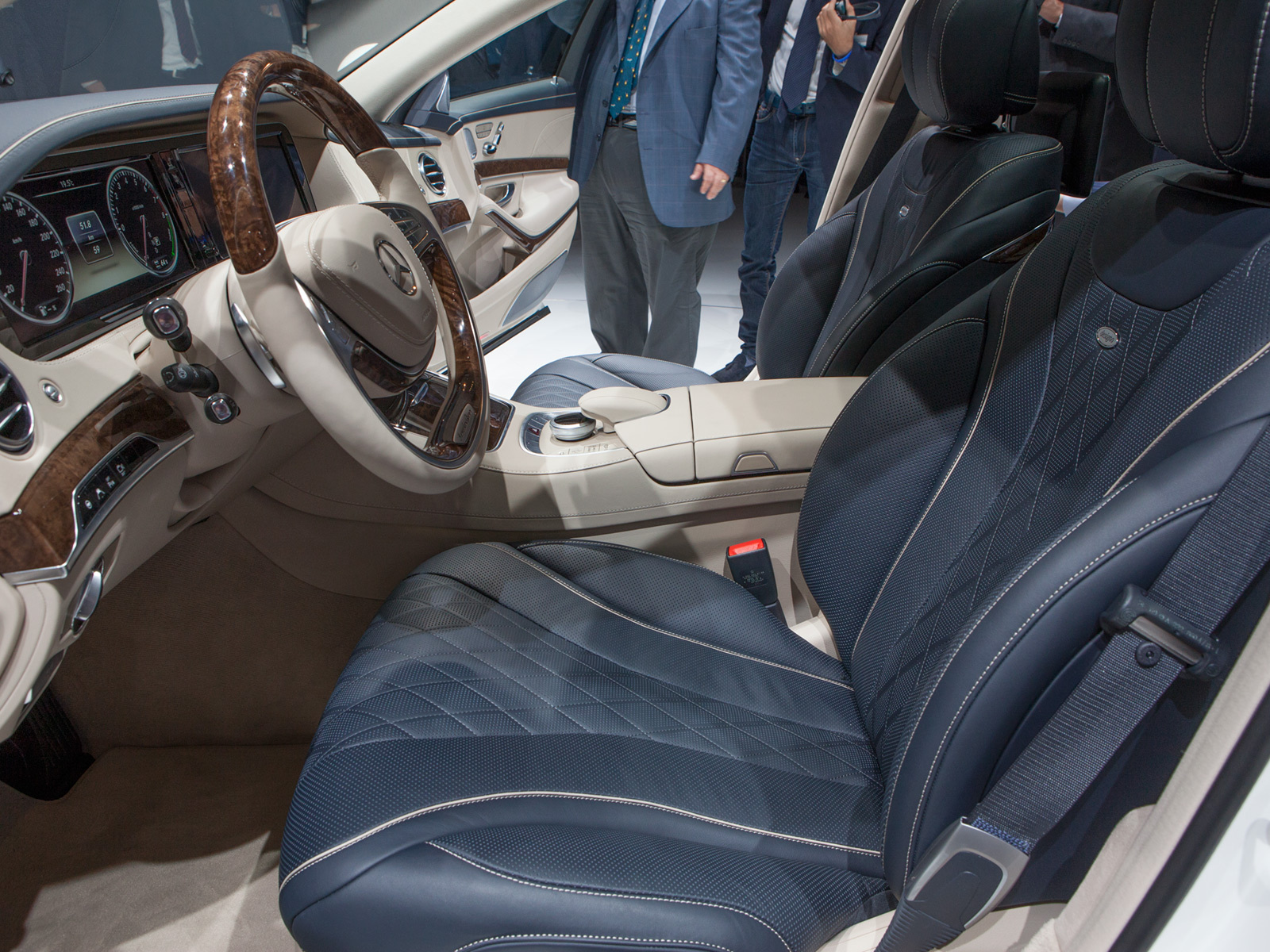 Photo of the portal DRIVE of an interior of the new Mercedes-Benz S-Class (W222) from its presentation in Hamburg.